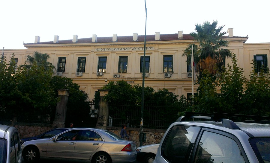 syggrou hospital